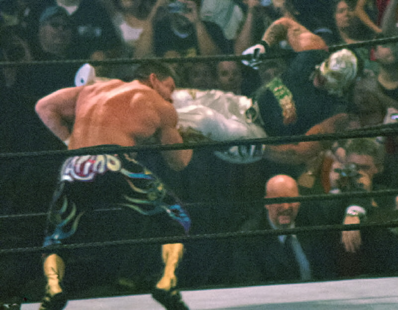 Rey Mysterio hitting his 619 (Tiger Feint Kick) finisher on Eddie Guerrero at WrestleMania 21. I took this picture personaly when I attended WWE's 21st annual WrestleMania PPV event.